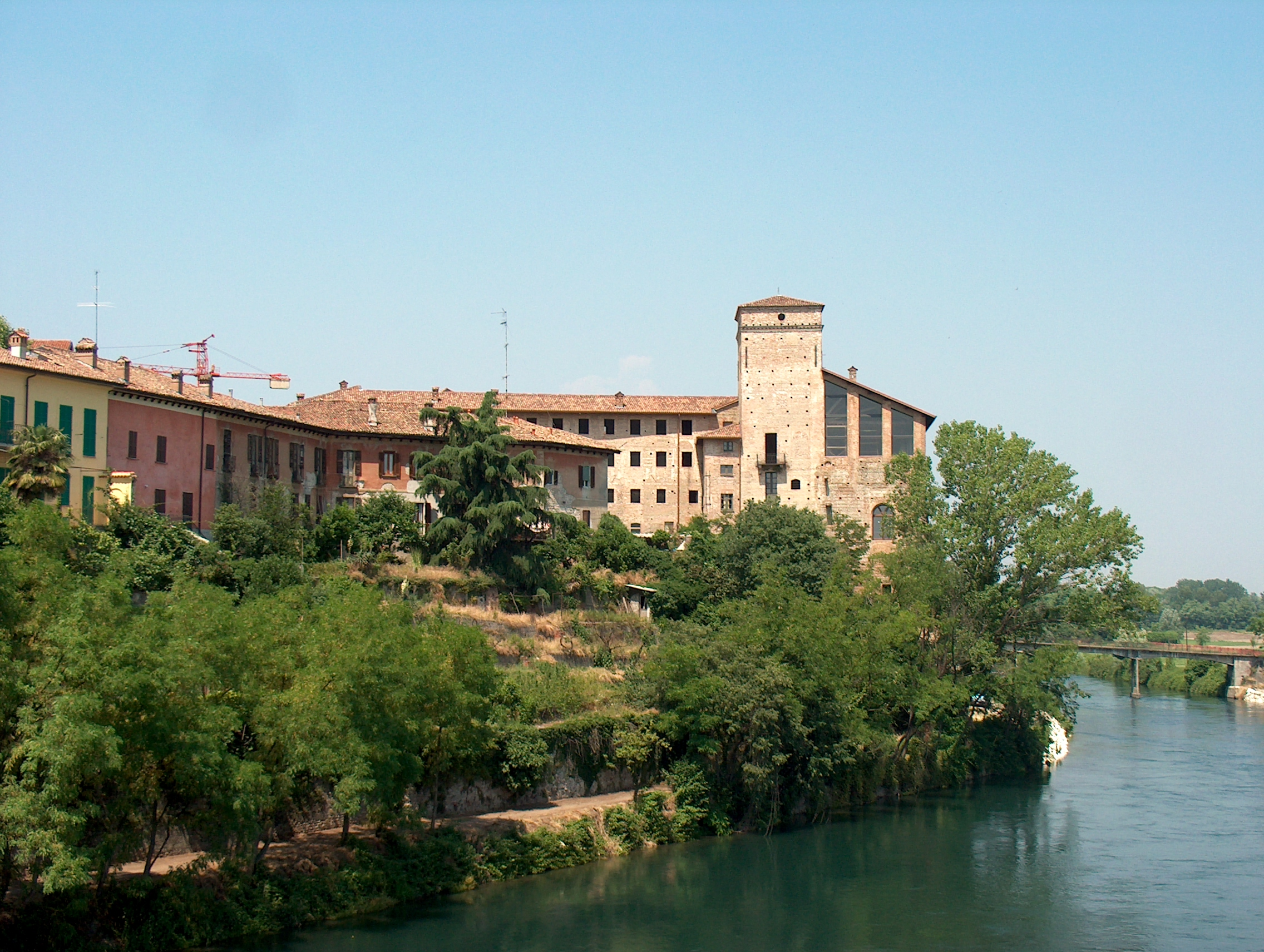 The river Adda and the fort of the town Cassano d'Adda.